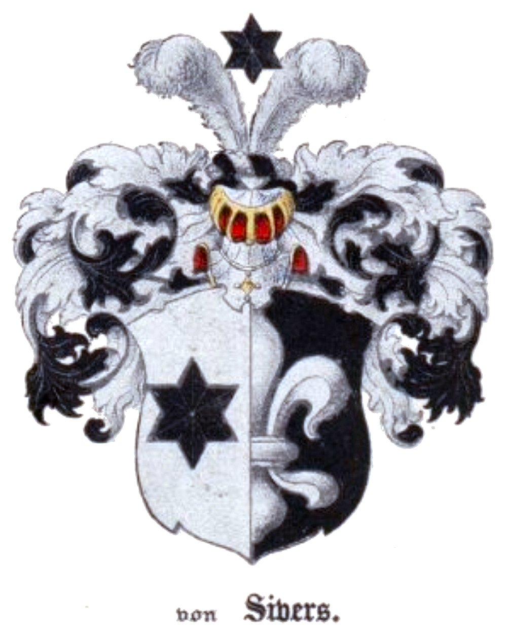 Swedish, Estonian and Russian noble COA Sivers